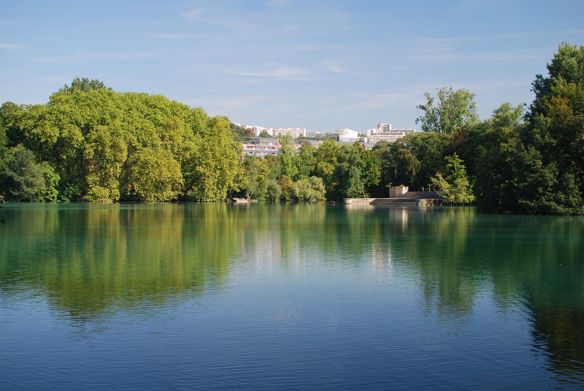 Parc de la Tête d'Or, Lyon, France